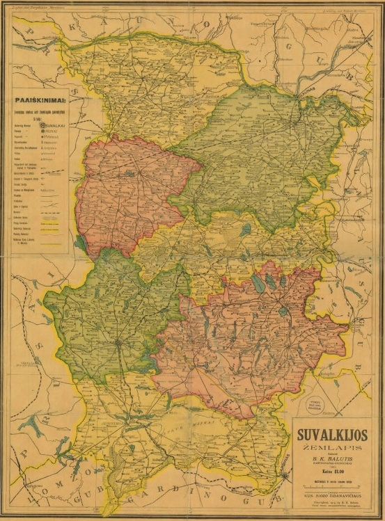 map of Suvalkija area, scale 1:250 000, prepared by a Lithuanian nationalist and intended for propaganda purposes for domestic and international audience, distributed in Europe and in the US